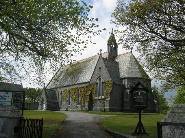 Craigiebuckler Church, Aberdeen. A beautiful setting very popular for weddings.